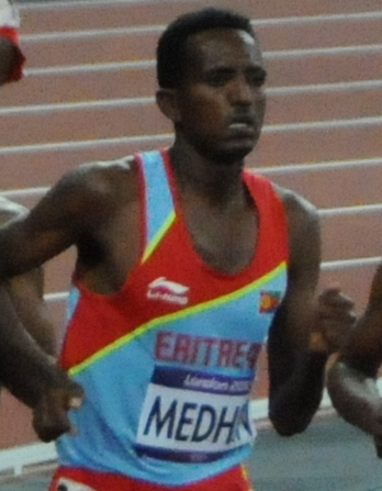 Teklemariam Medhin, Eritrean long-distance runner, at the men's 10000m final - 2012 Summer Olympic Games.